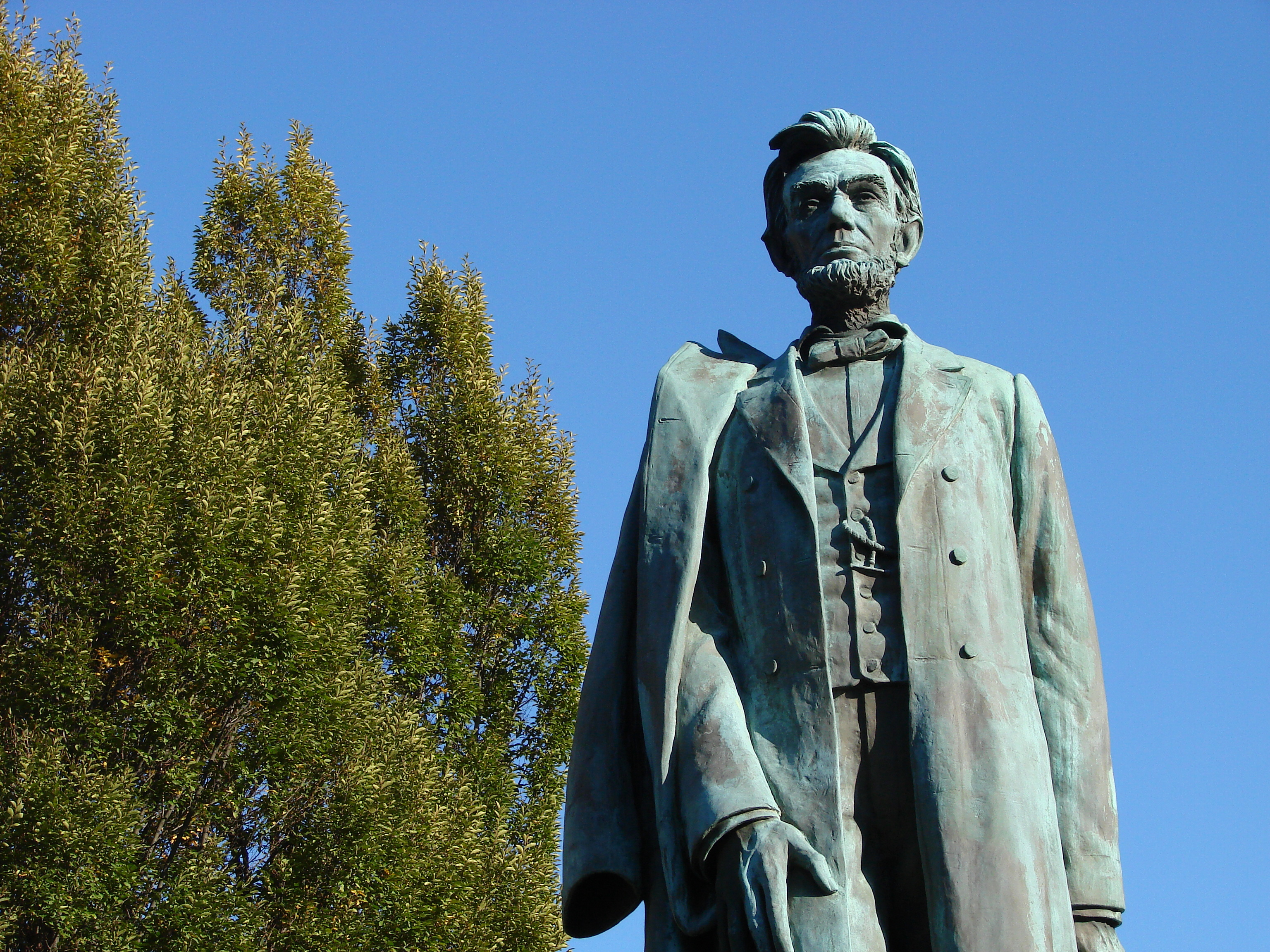 Abraham Lincoln - Statue in Downtown Spokane WA - USA